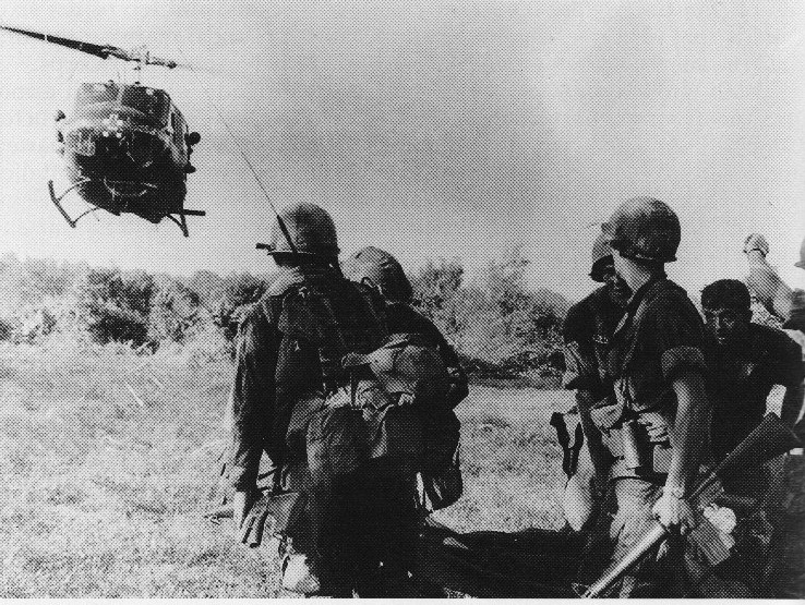 Troops of the 173rd Airborne Brigade prepare to evacuate wounded during Operation Greeley